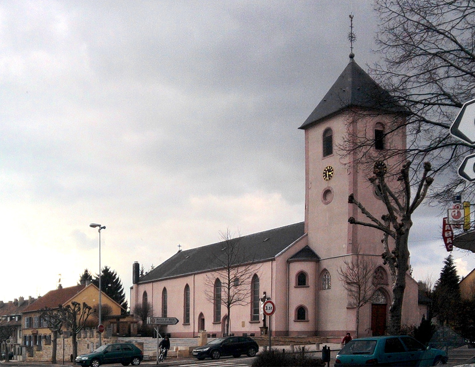 St Denis church in Sarreguemines, Moselle (France).